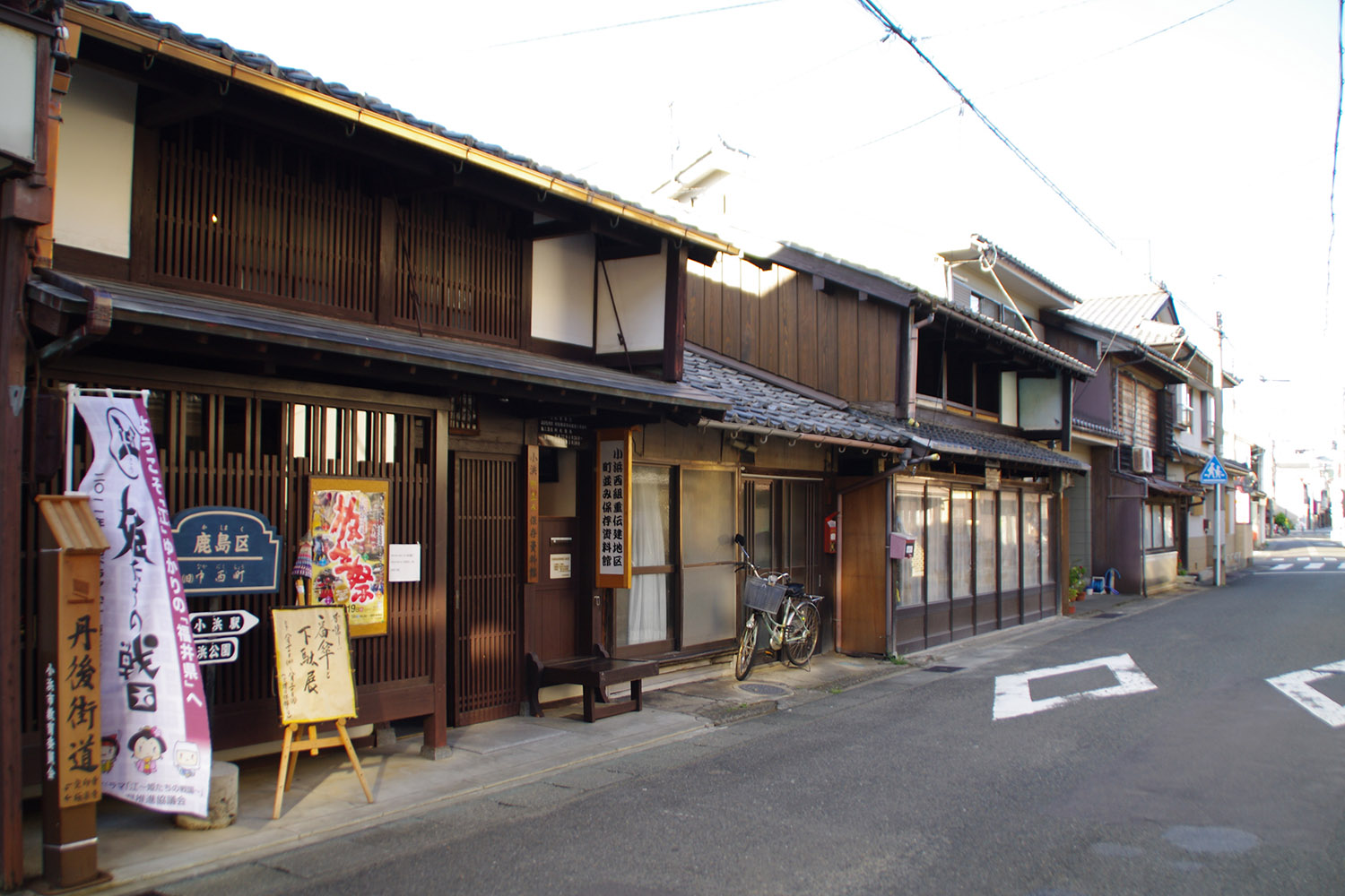 Obamanishigumi, a traditional buildings area in Obama